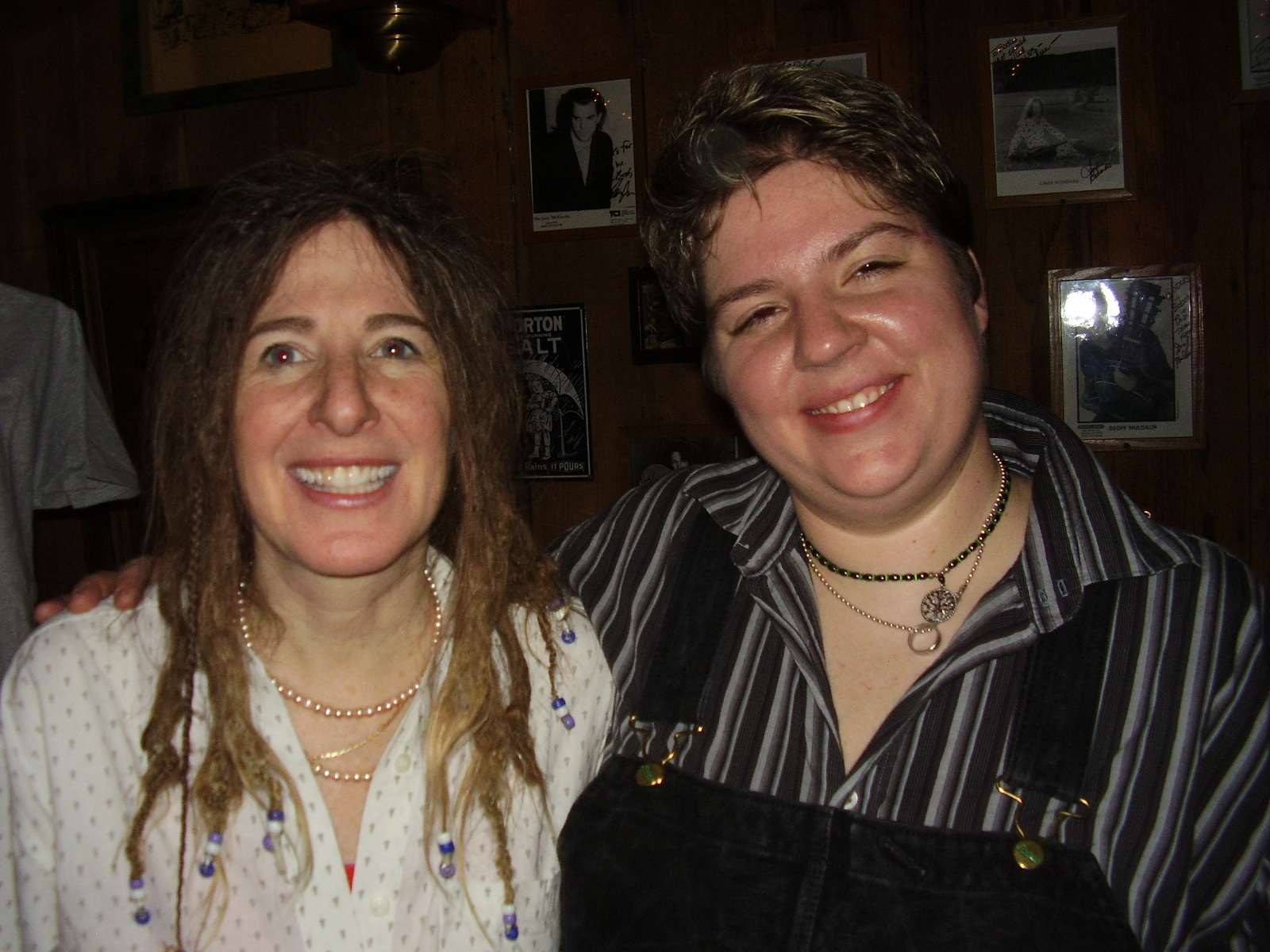 A photograph of Sonia Rutstein and Laura Cerulli taken at Bodles Opera House in Chester, New York on March 10, 2007. Author: Gordon Nash